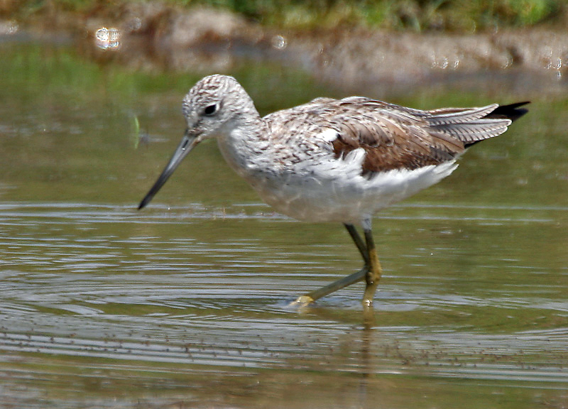 Common Greenshank ((Tringa nebularia)) at Keoladeo National Park, Bharatpur, Rajasthan, India.